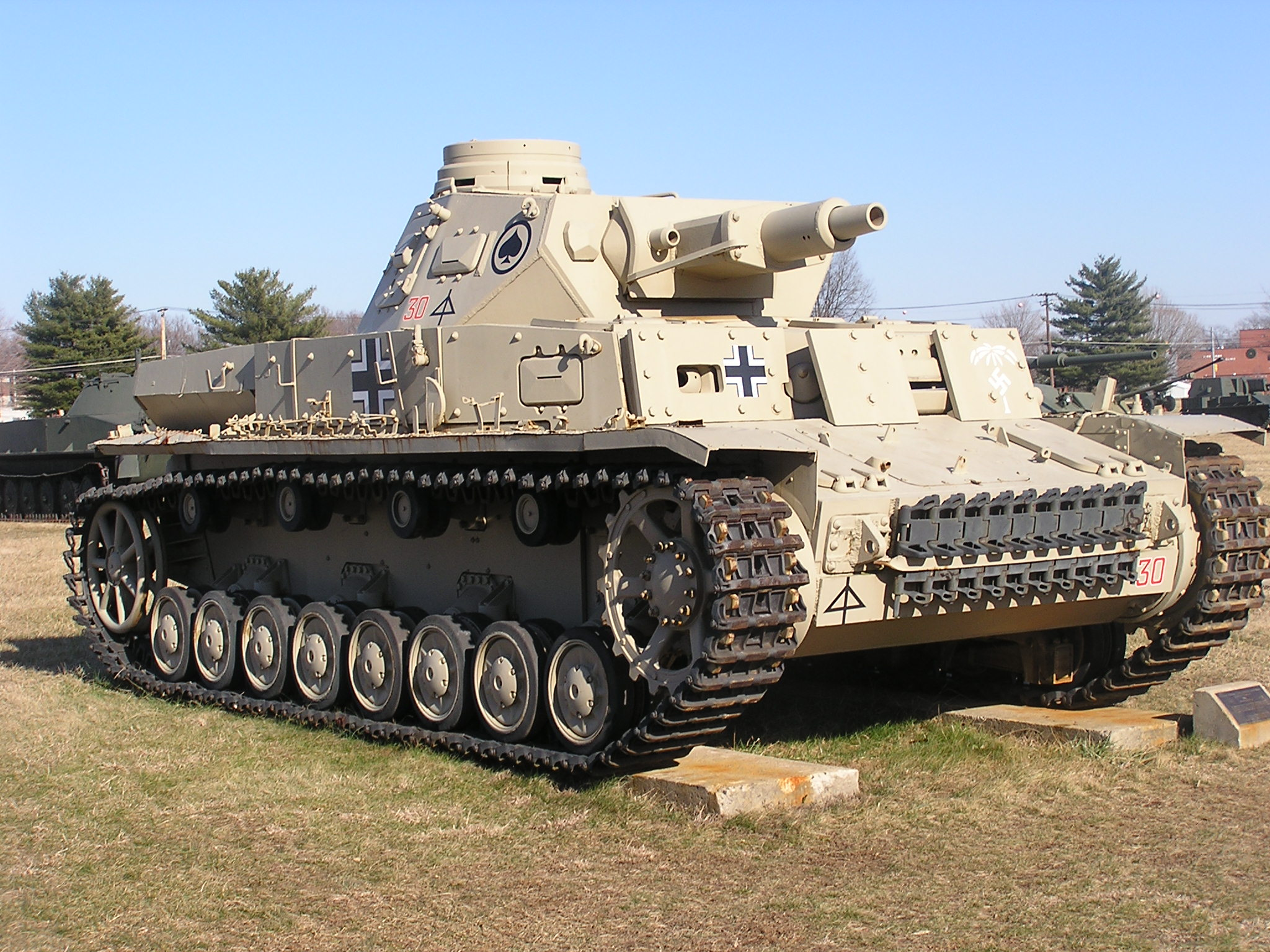 Panzerkampfwagen IV Ausf. D with additional, bolted-on, armor plates on display at the US Army Ordnance Museum in Aberdeen. The tank bears the sign of the german Afrika Korps.